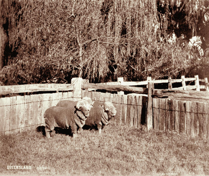 Stud merino rams, Glengallan Station near Warwick.